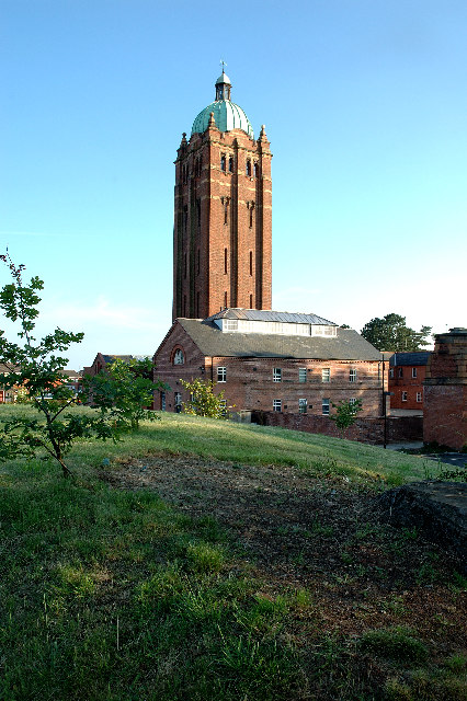 Water Tower, Hollymoor Hospital, Northfield, Birmingham. All that remains of this former mental hospital. Water towers were standard features of late Victorian mental hospitals.